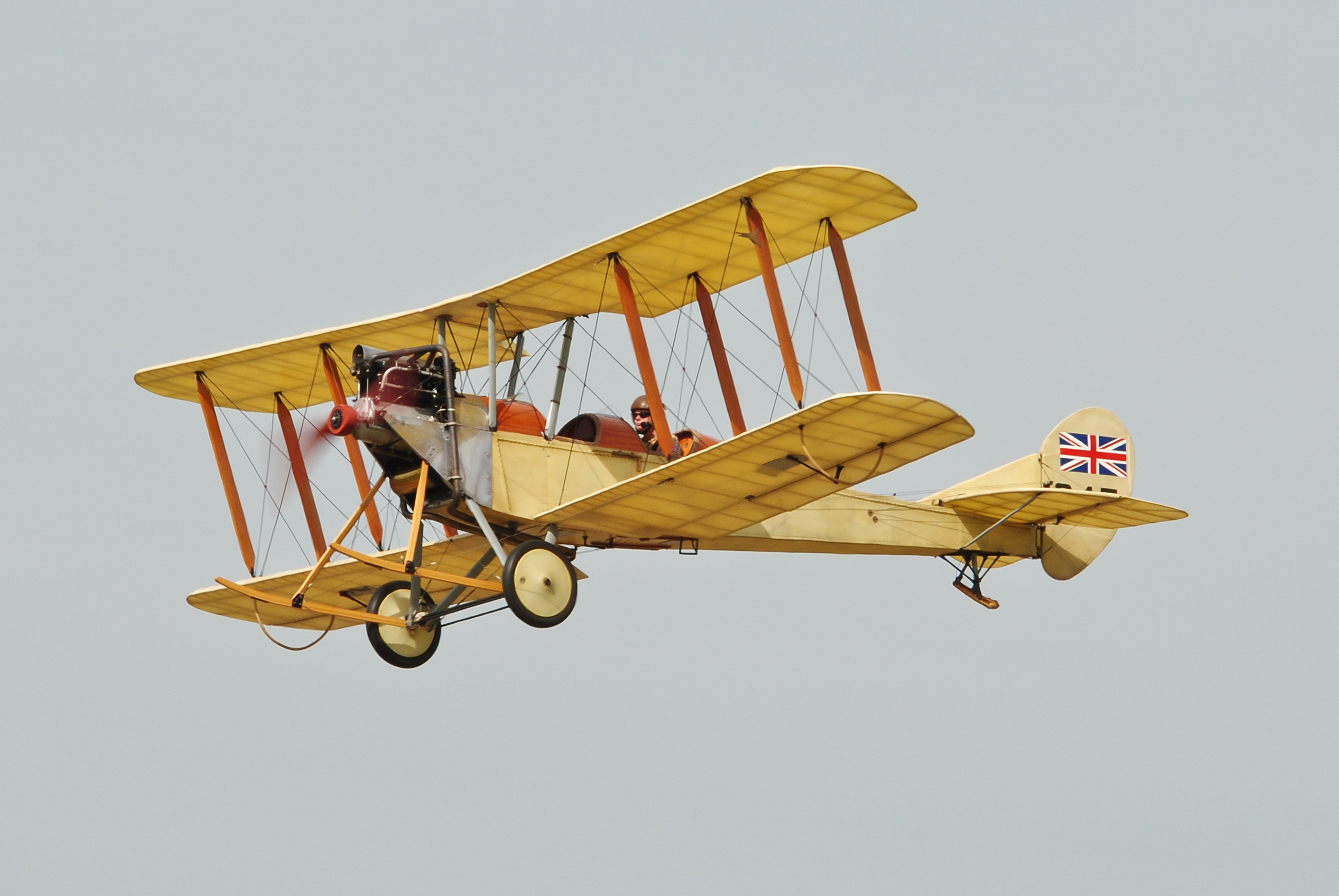 Great War Display Team taken at Shoreham Airshow 2013